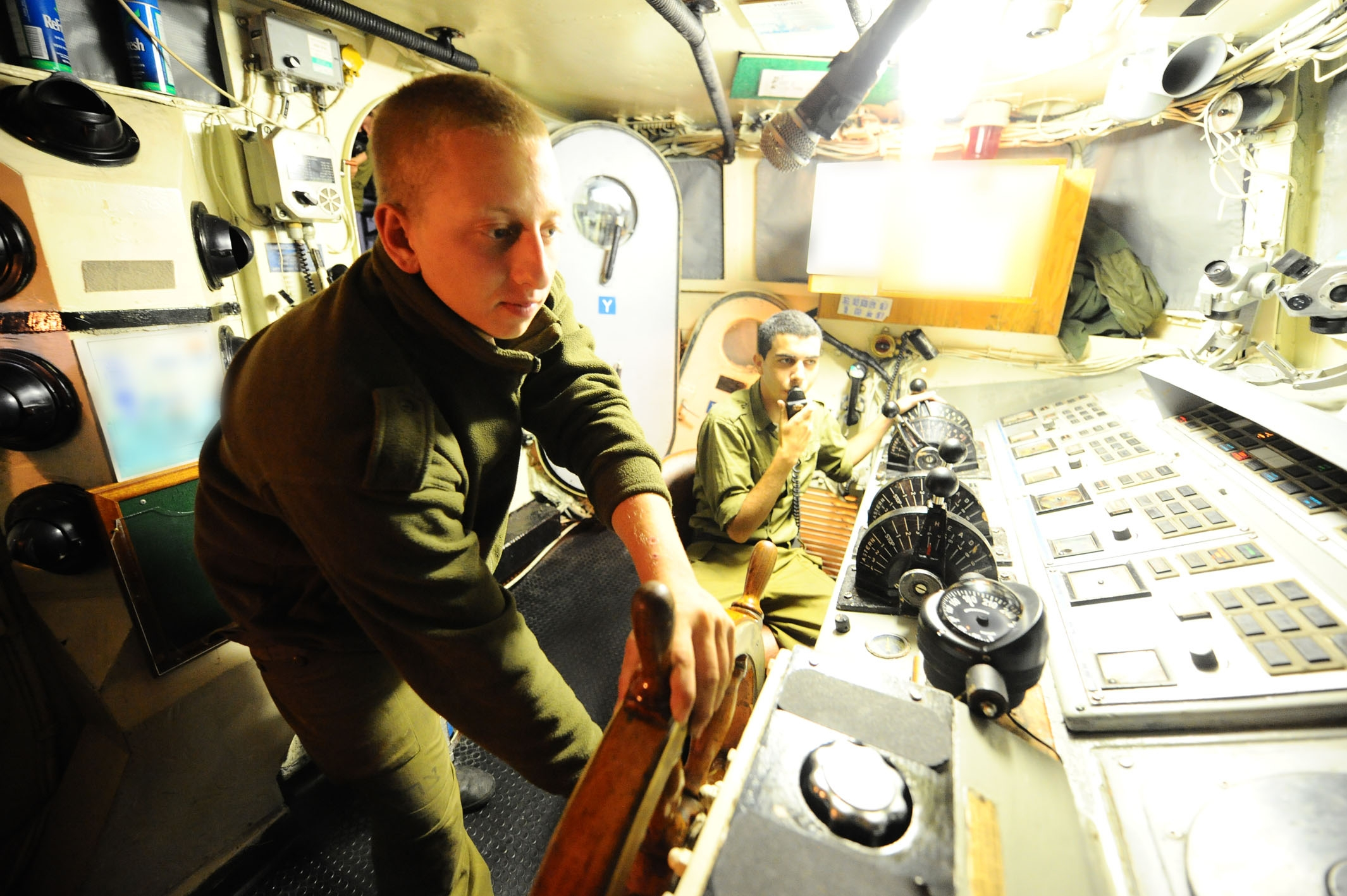 May 29, 2010. IDF Naval Forces prepare to implement the Israeli government's decision to prevent the flotilla from reaching the Gaza Strip, in order to verify that the cargo does not contain any weapon making materials which would aid the Hamas government, or any other terrorist organization in the region. Photography: SSgt. Michael Shvadron, IDF Spokesperson's Unit.